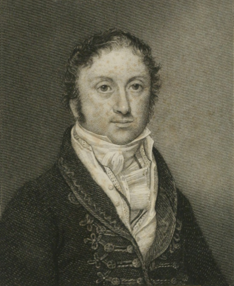 Fencing master Henry Charles William Angelo (1756-1835) in the frontispiece to his memoir, Reminiscences of Henry Angelo (1828). This line engraving was engraved by W. Bond, after a painting by W. Childe.